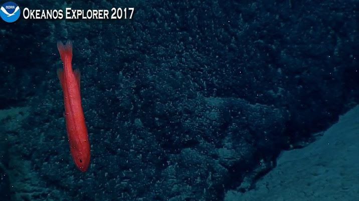 "Whalefish" Barbourisia rufa observed in the abyss by NOAA mission Okeanos Explorer off Samoa islands in 2017.